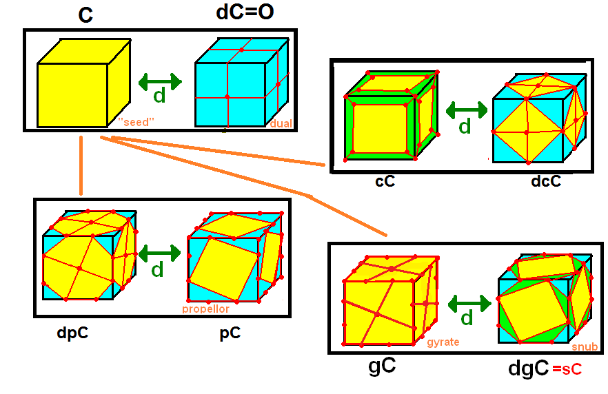 Selected subset from File:Conway_polyhedron_notation-examples.png